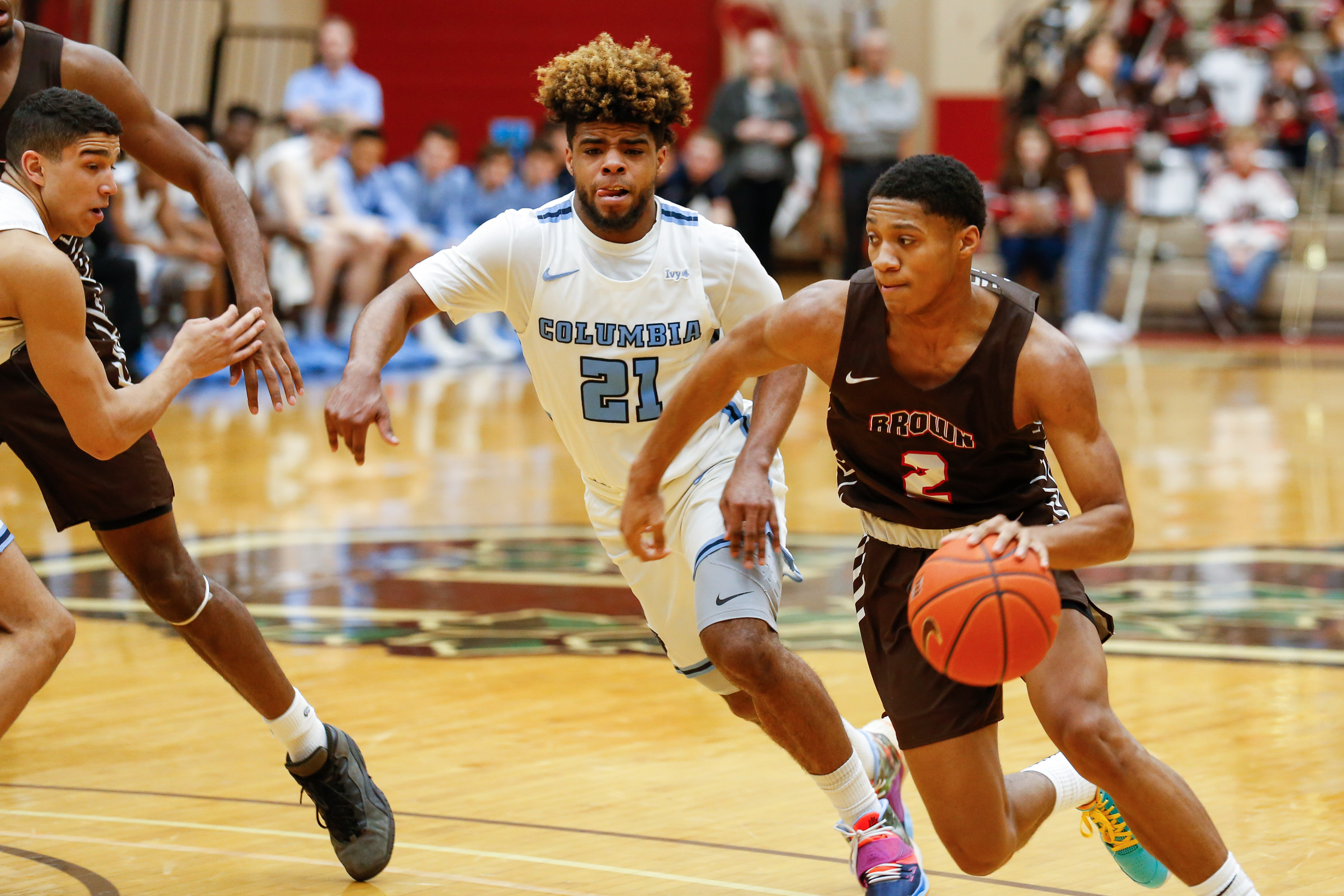 Columbia #21 Mike Smith and Brown #2 Brandon Anderson. Brown vs. Columbia basketball game at Pizzitola Center, February 1, 2020. Brown won, 72-66.